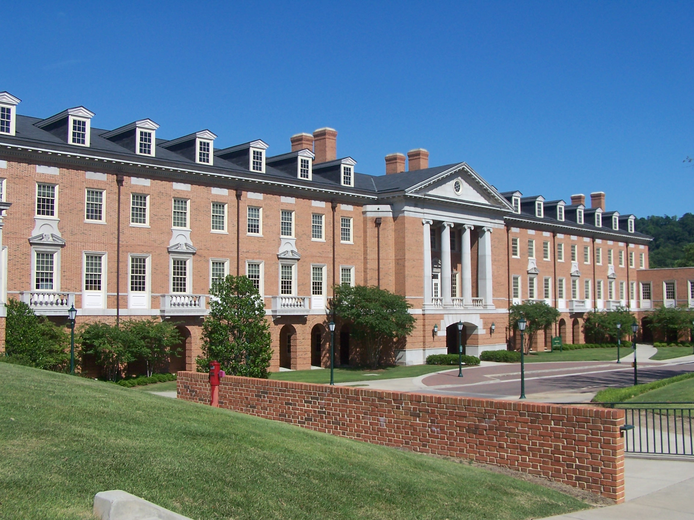 Author: Brian R. Mooney Source: Digital Photo